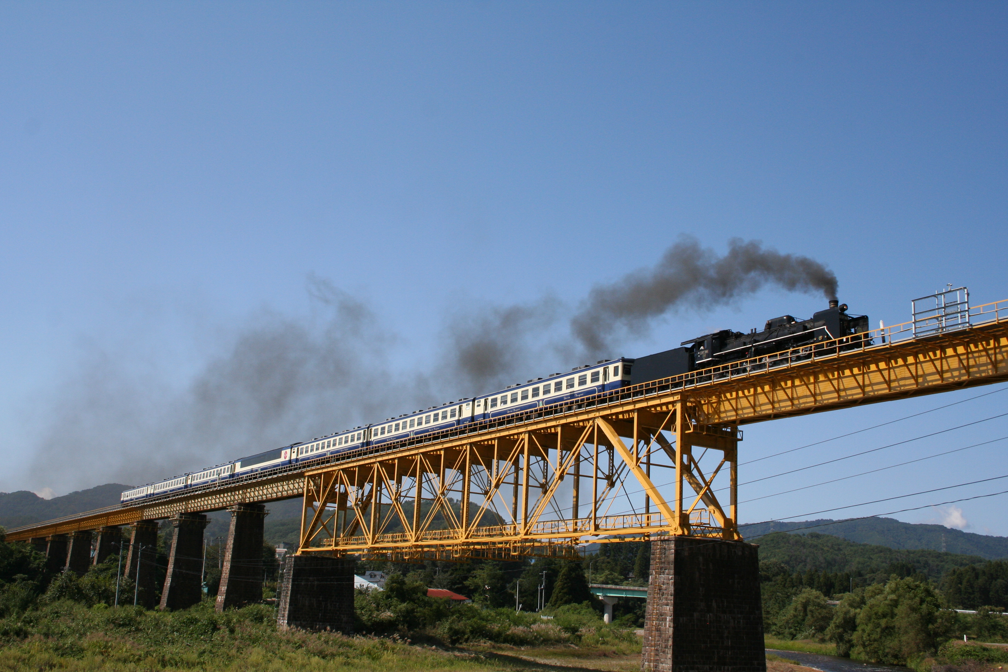 The JR East SL Banetsu Monogatari hauled by C57 180 crossing the Ichinotogawa River bridge Canon EOS Kiss Digital X